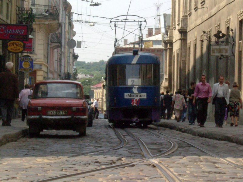 Tram No 2 in Lviv, Ukraine (Near Rynok)